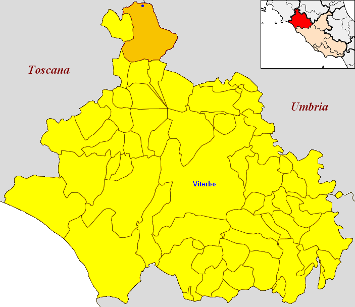 Locator map of Trevinano (the blue spot) within the municipality of Acquapendente (shown in orange) and the Province of Viterbo.